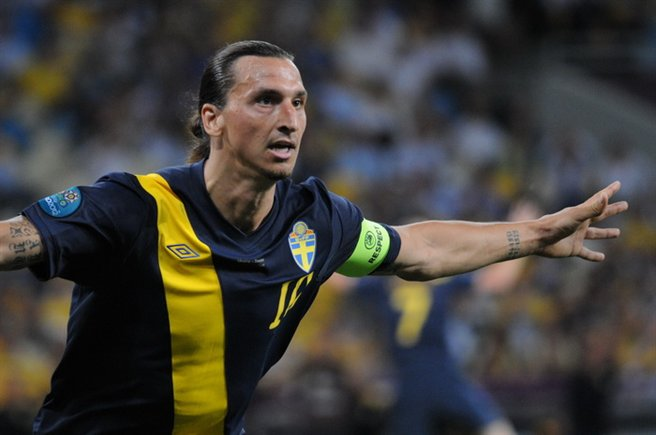 Zlatan Ibracaz at the Euro 2012 match against Ukraine